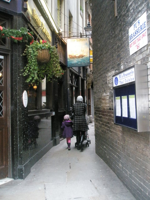 Looking from Gate Street into Little Turnstile